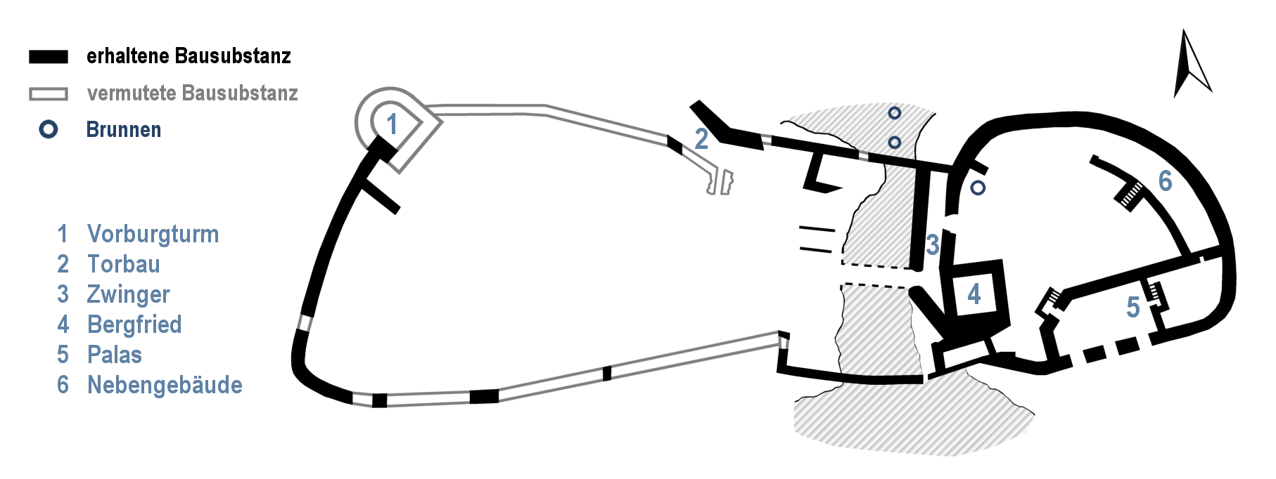 Floor plan of the Neue Isenburg in Essen